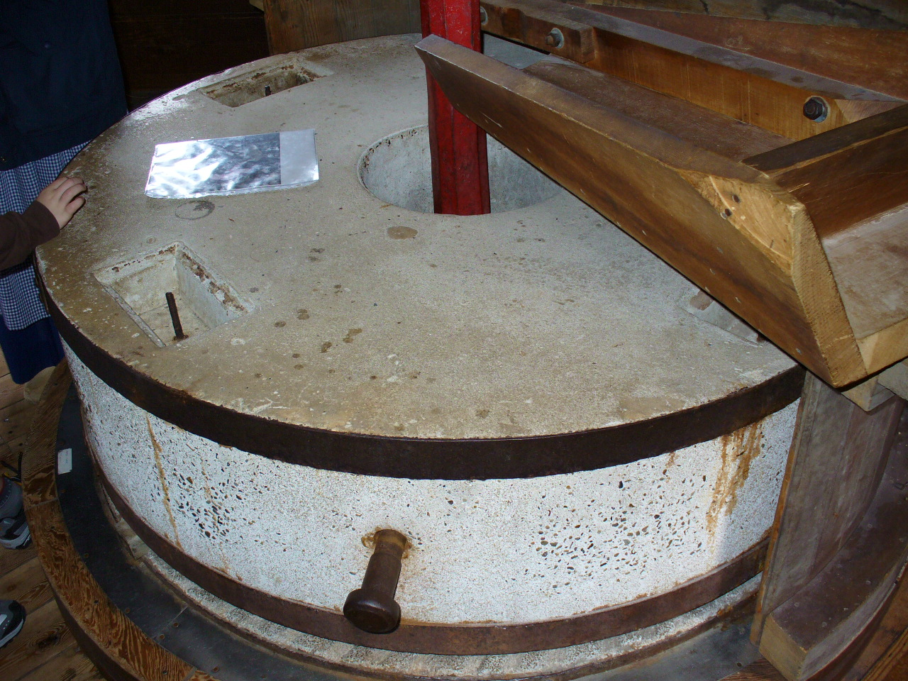 The Millstone for DeZwaan Windmill in Holland, Michigan